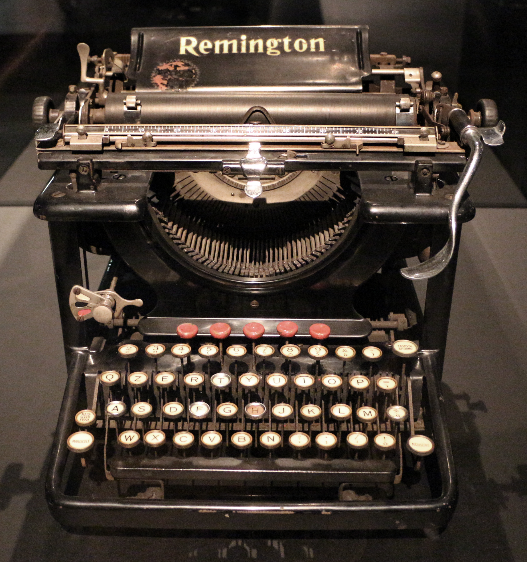 Neo Preistoria exhibition (Milan 2016)